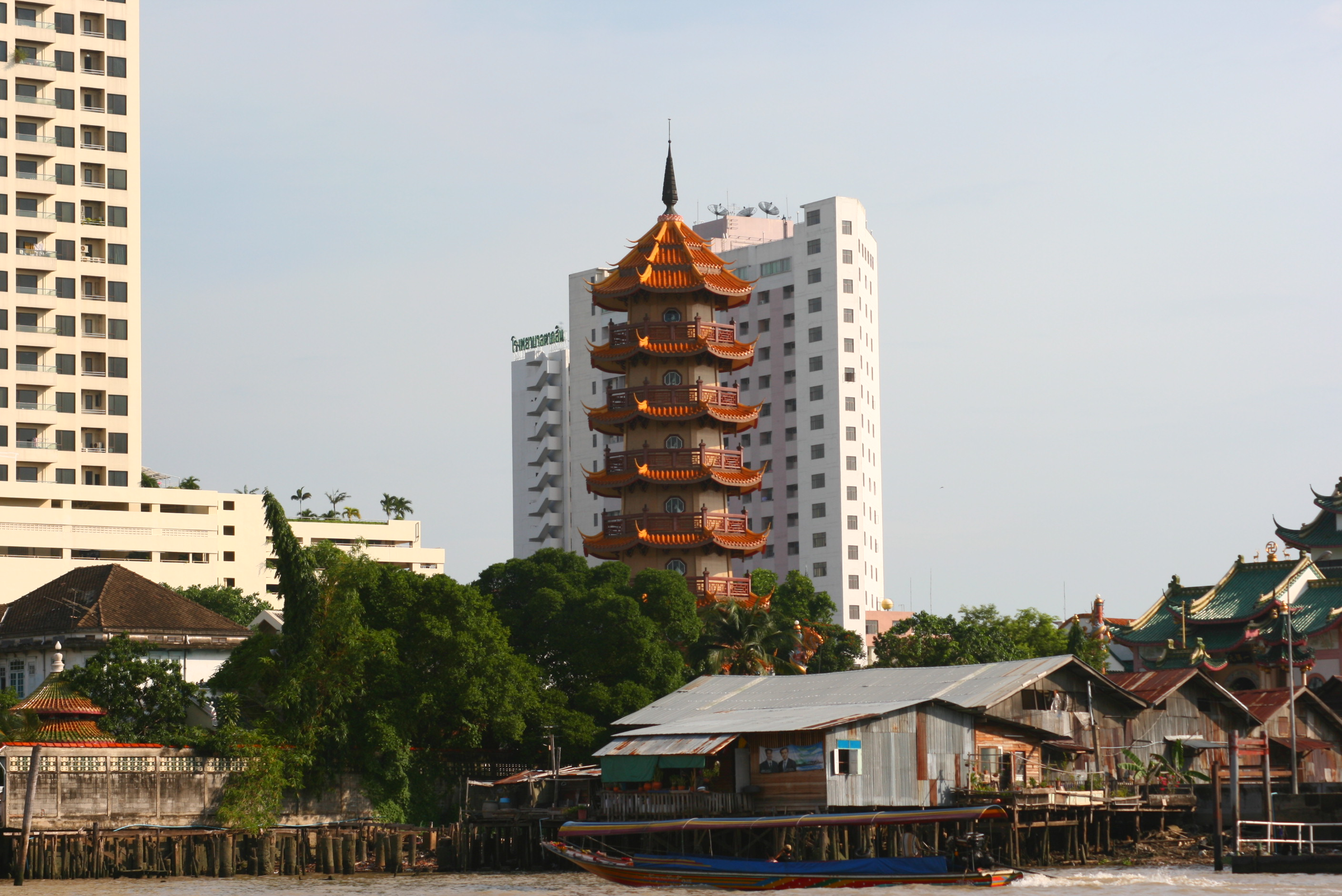 Pagoda of Chee Chin Khor Temple near Chao Phraya River